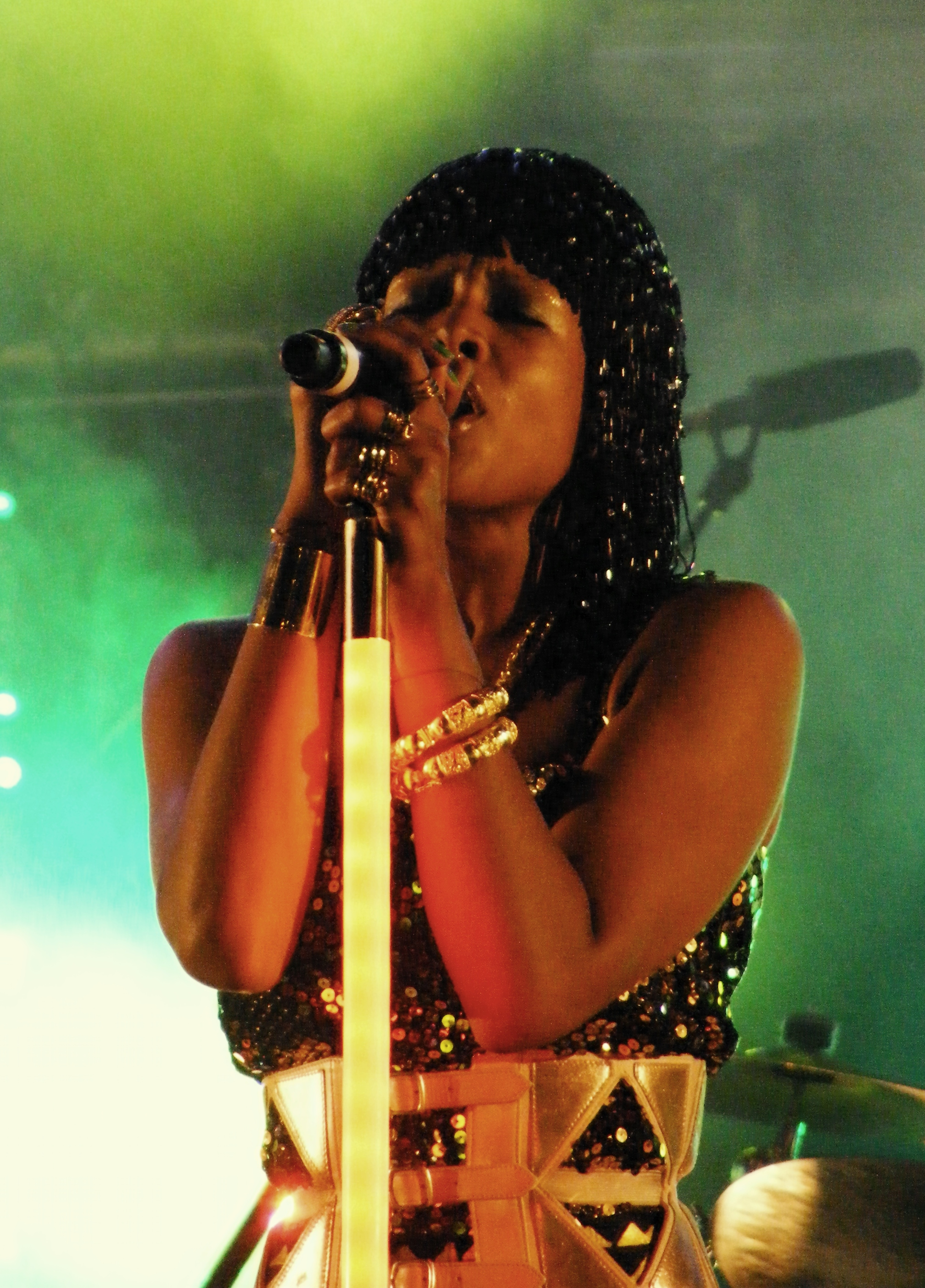 Kelis performing Manchester Pride on Sunday the 29th 2010